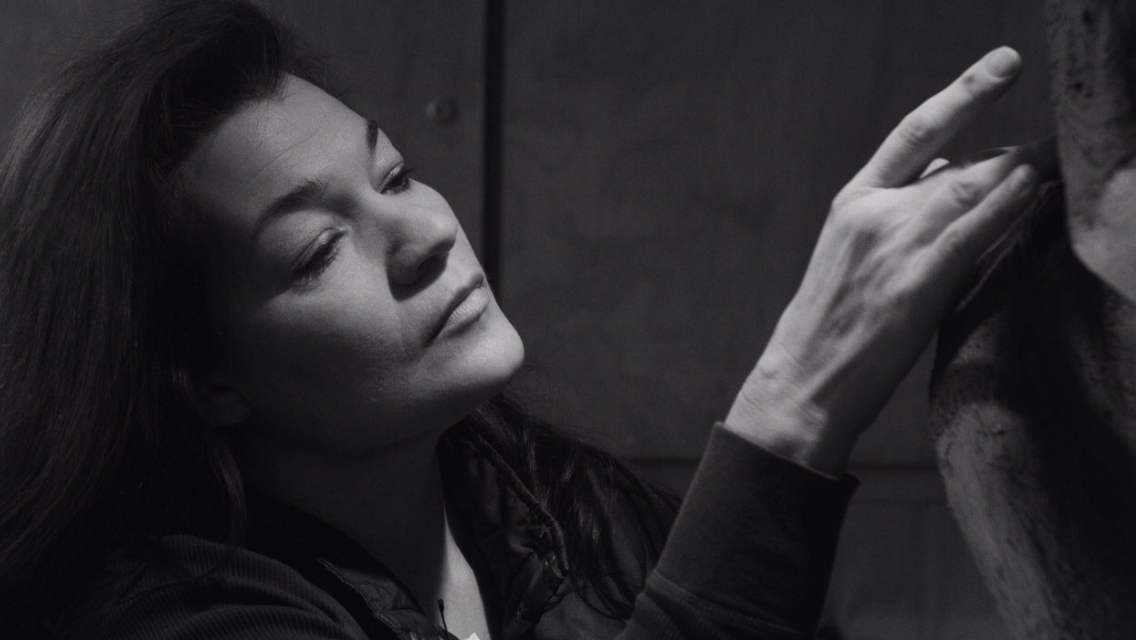 Artist working with clay - cc 2015, Lexington, KY